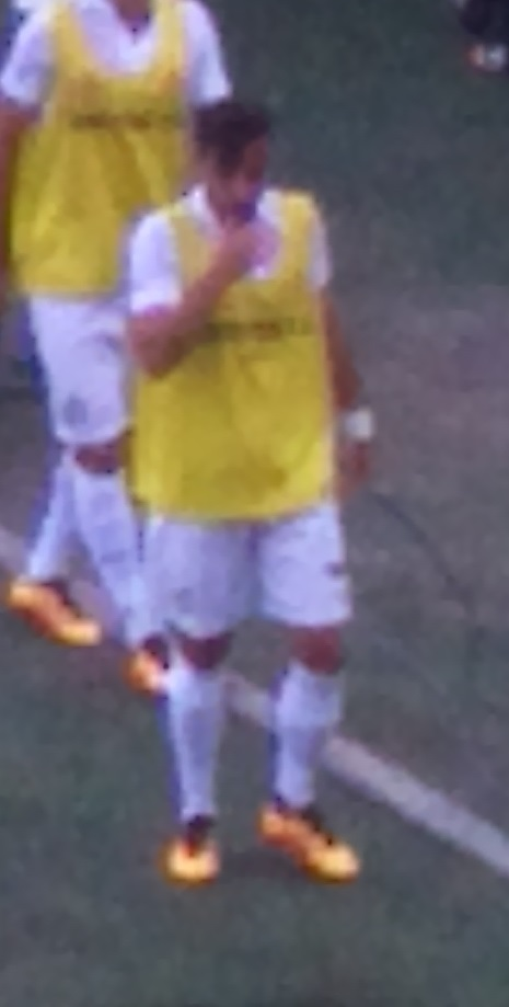 Rafael Longuine warming up for Santos against São Bernardo on 30 January 2016, at the Vila Belmiro.